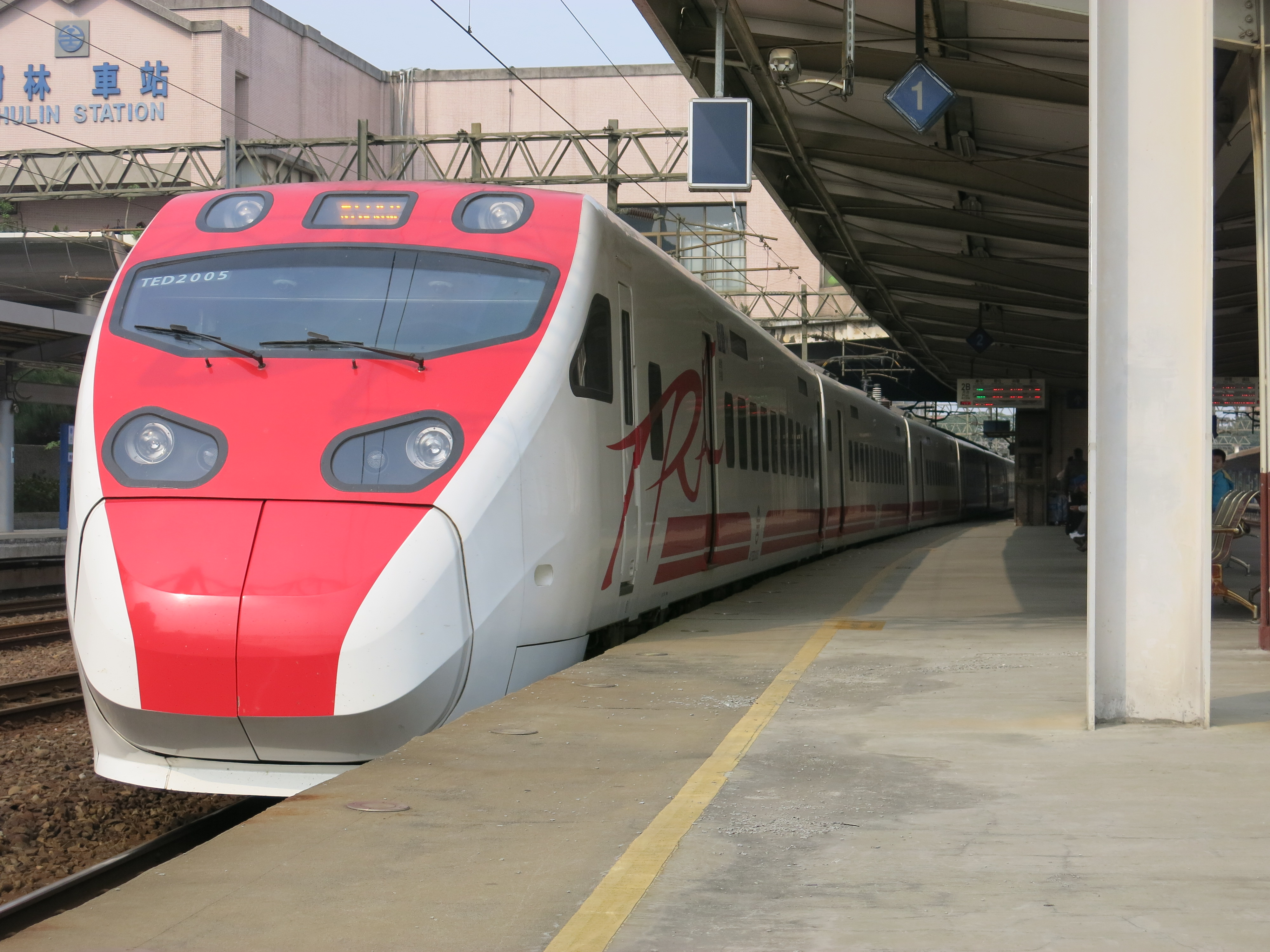 TRA TED2005 in Shulin Station